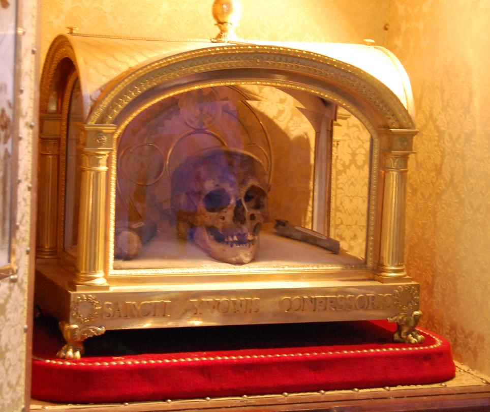 Skull St Yves Treguier august 2008